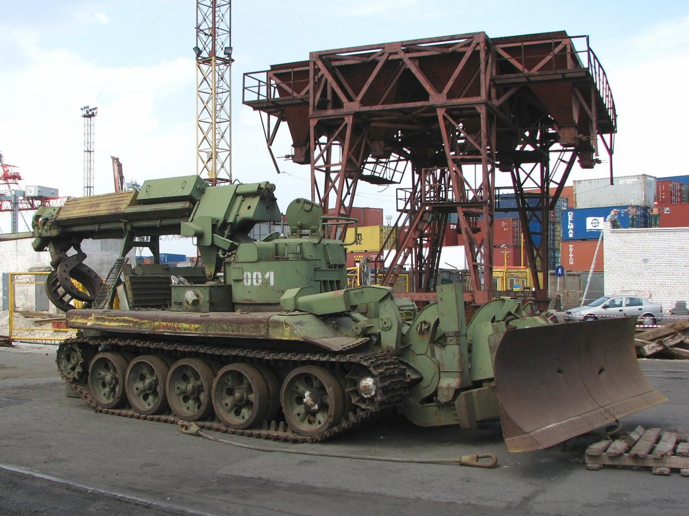 An IMR combat engineering vehicle (Inzhenernaya mashina razgrazhdeniya), based on the T-55 tank chassis.